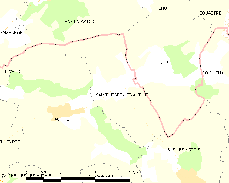 Map of French municipality Saint-Léger-lès-Authie